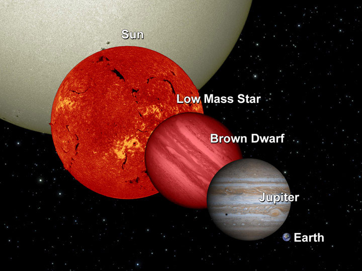 General size comparison between a low mass star, a brown dwarf, and the planet Jupiter. In this image the brown dwarf is shown to be about 15% larger than Jupiter. The radii of brown dwarfs (13-75 MJ) vary by only 10–15% over the range of possible masses. Depending on the age and temperature, the transiting brown dwarf COROT-3b has a diameter 1.01±0.07 times that of Jupiter.